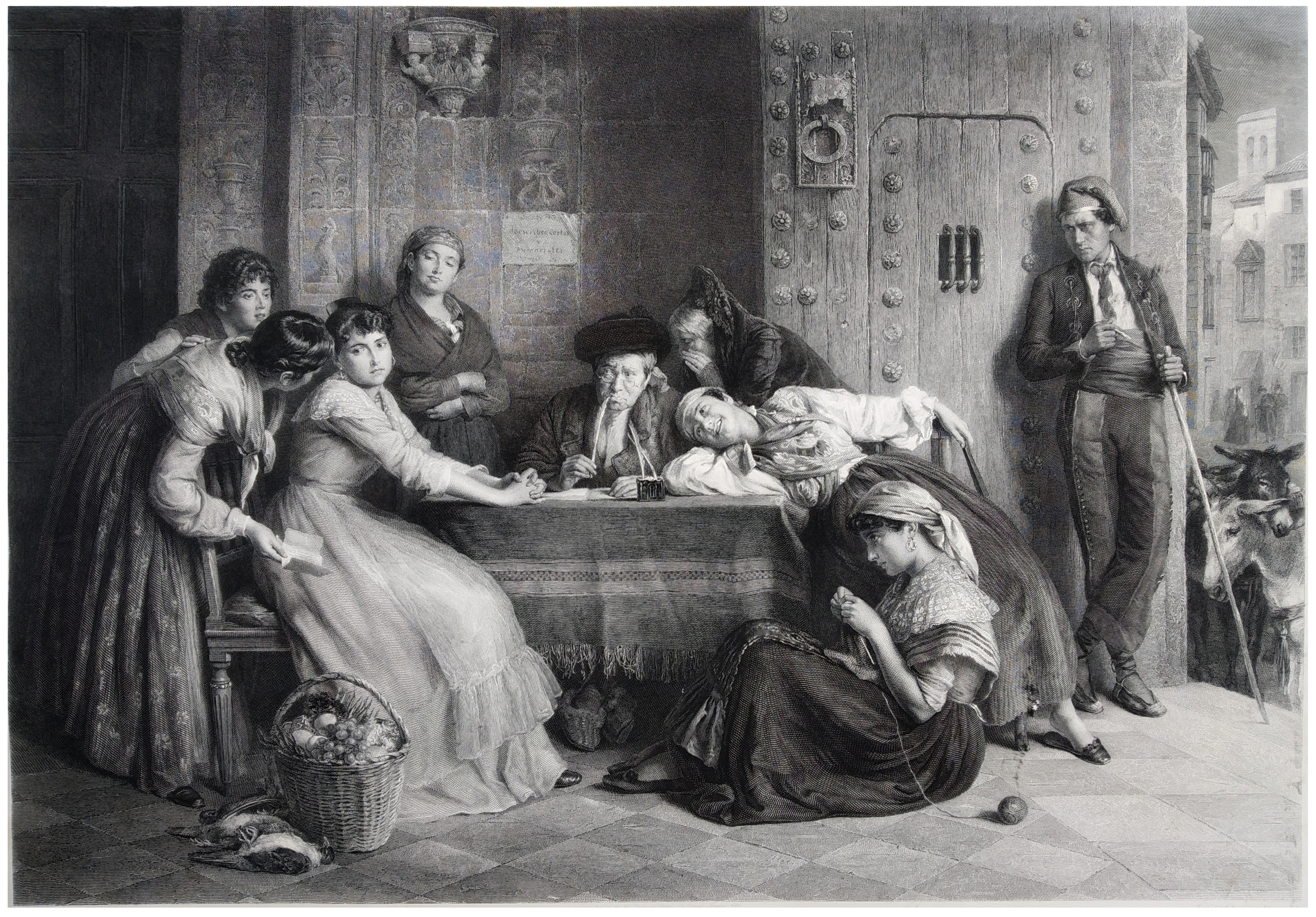 'A Spanish letter writer' engraved by Lumb Stocks after a painting by John Bagnold Burgess. Printed by McQueen for the Art Union of London in 1888